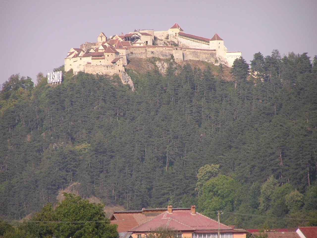 Castle Râşnov